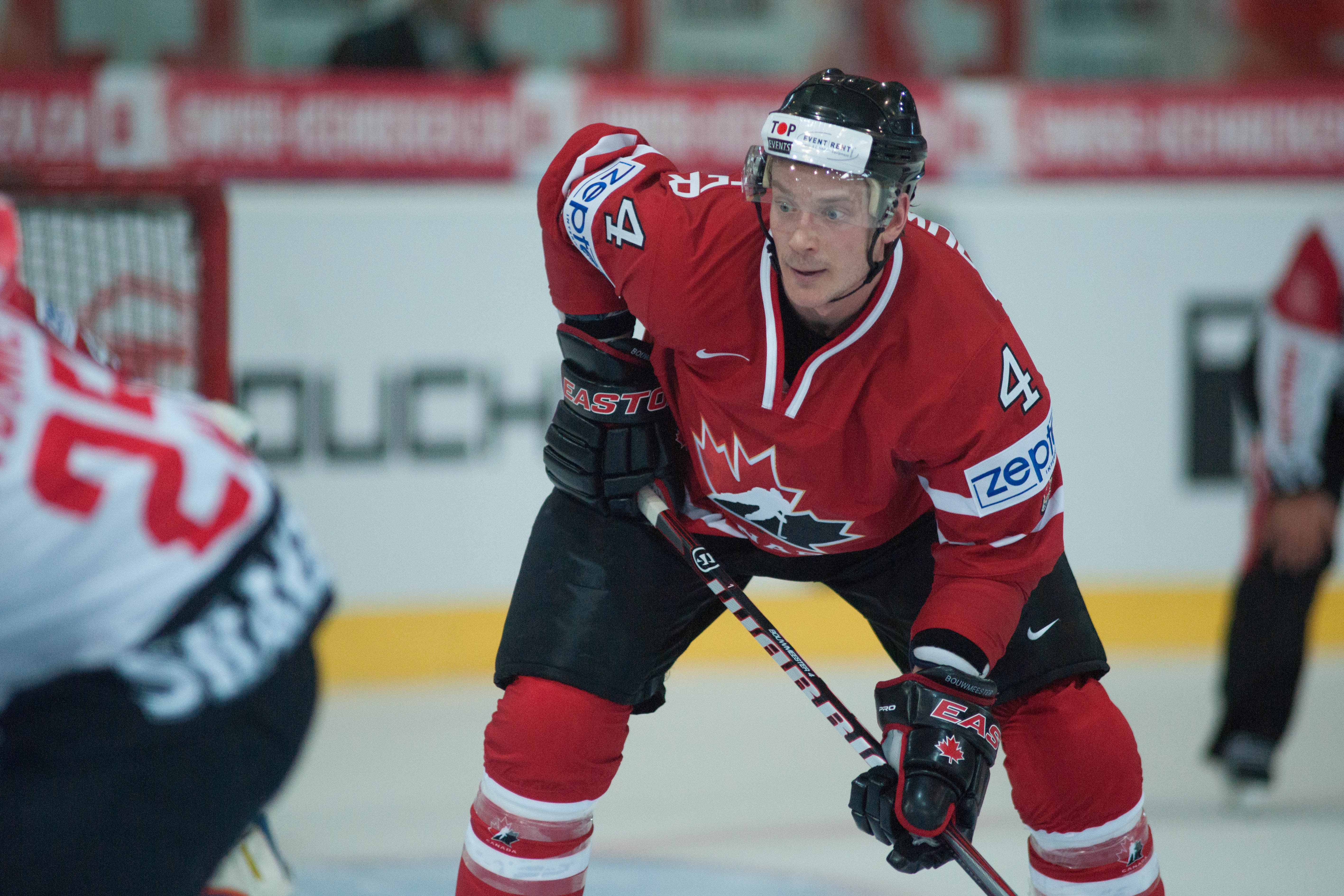 Switzerland vs. Canada, 29th April 2012